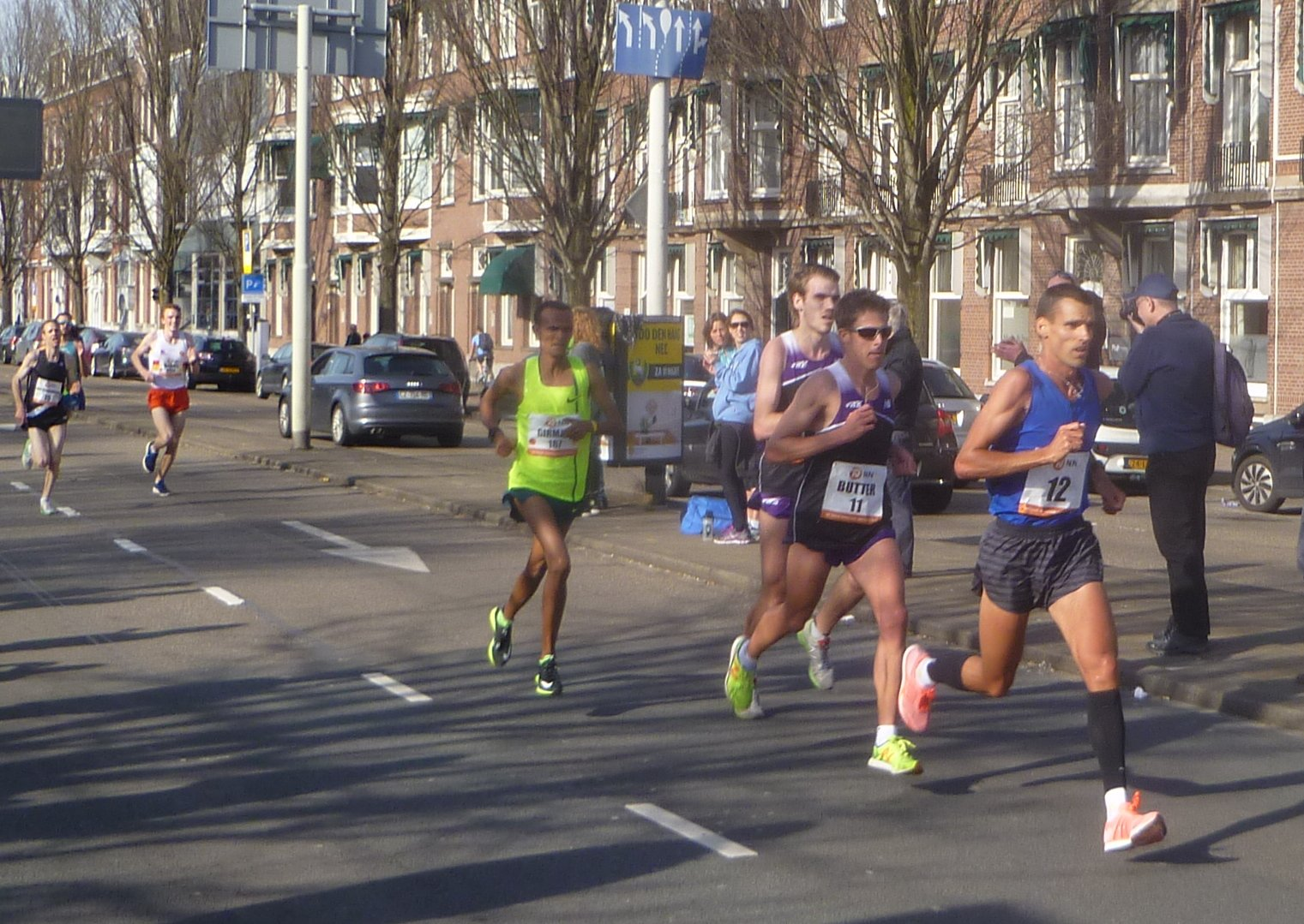 Runners CPC Half Marathon 2017